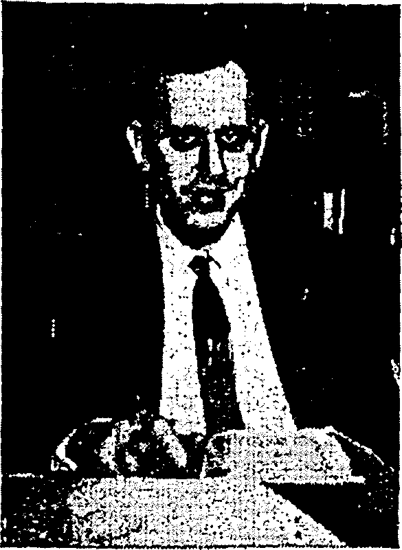 Dmitri Borgmann in 1964